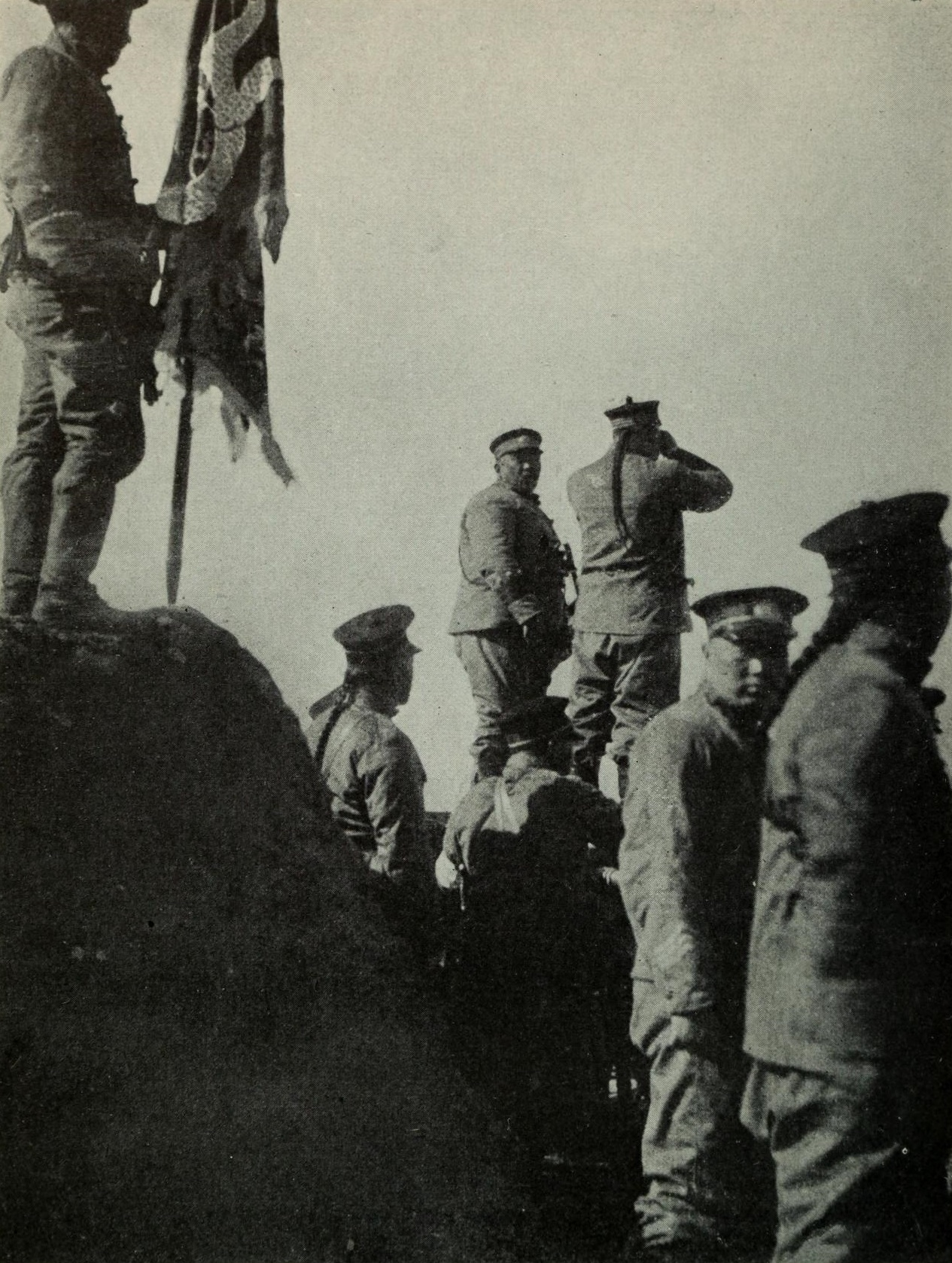 "On the firing-line during the revolution."